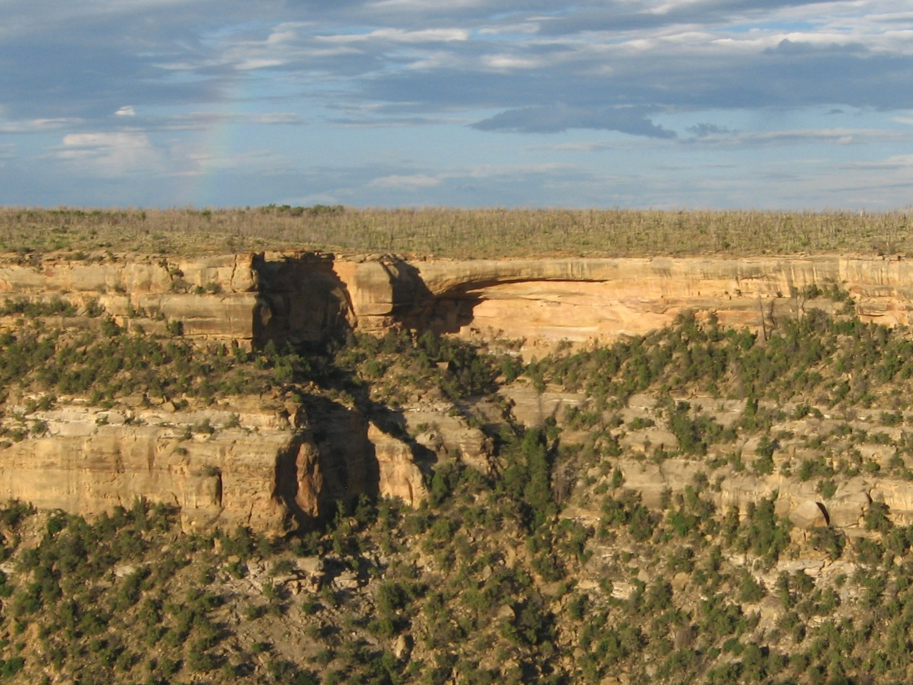 Mary Tileston Hemenway financially supported the first archeological research in the southwest. In 1907 Edgar L. Hewett, then an archealogist for the Archeological Institute of America, proposed naming this Soda Canyon cliff dwelling in her honor. Although Mary Hemenway never visited Mesa Verde, this site memorializes her contribution to our understanding of the Ancestral Puebloans.